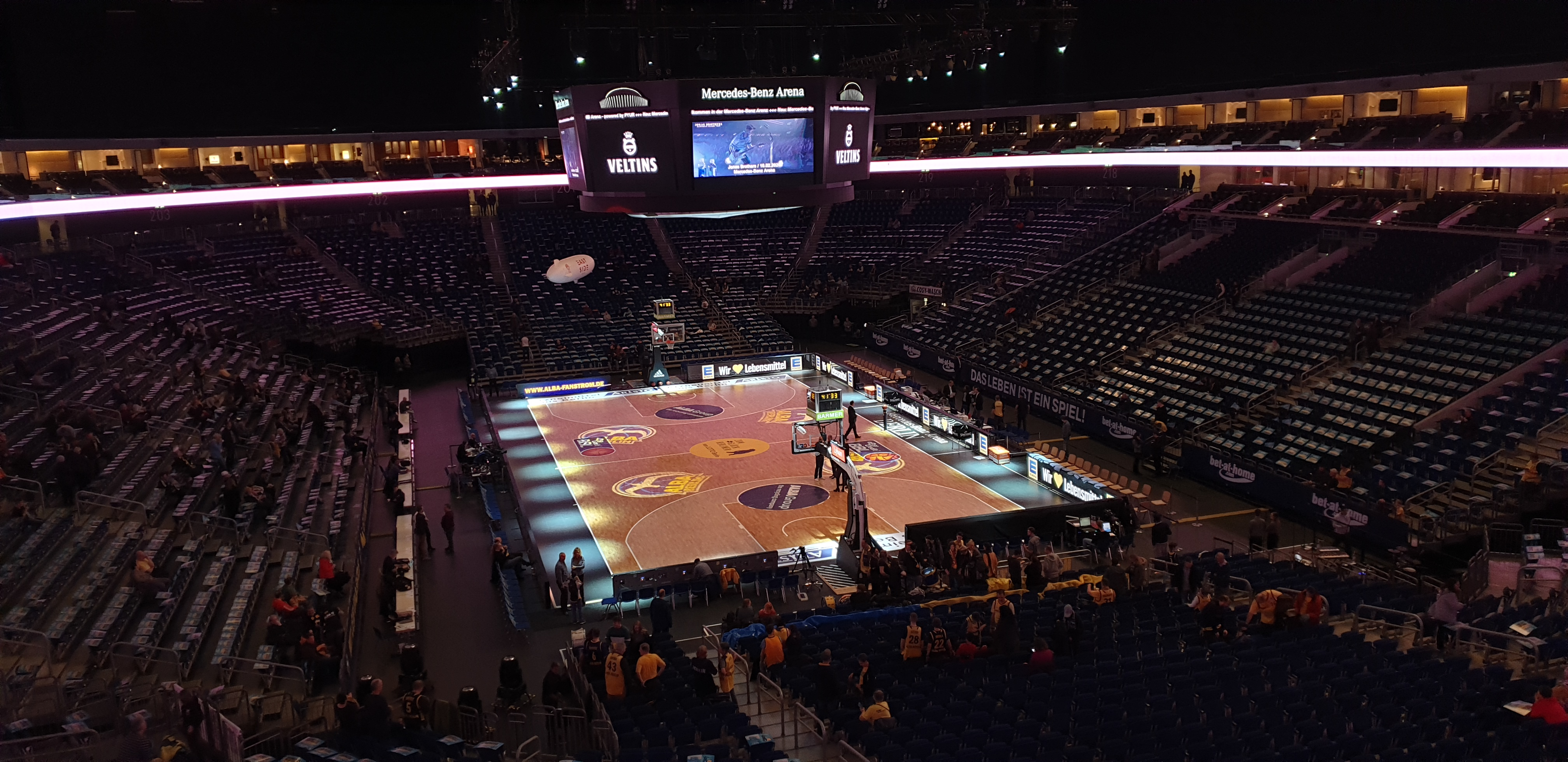 Alba Berlin versus ratiopharm Ulm game 2019-11-03